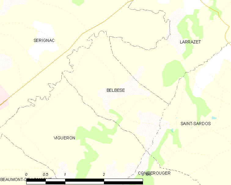 Map of French municipality Belbèse